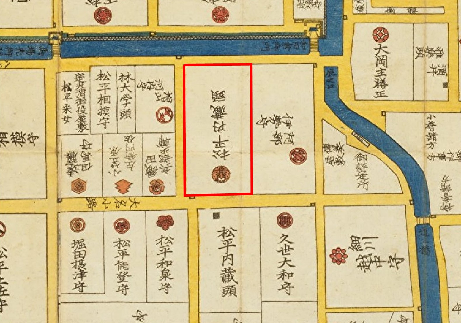 REsudence of Ikeda Okayama clan at Edo